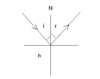 reflexia luminii